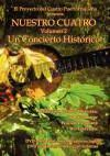 DVD cover of Nuestro Cuatro Vol 2.